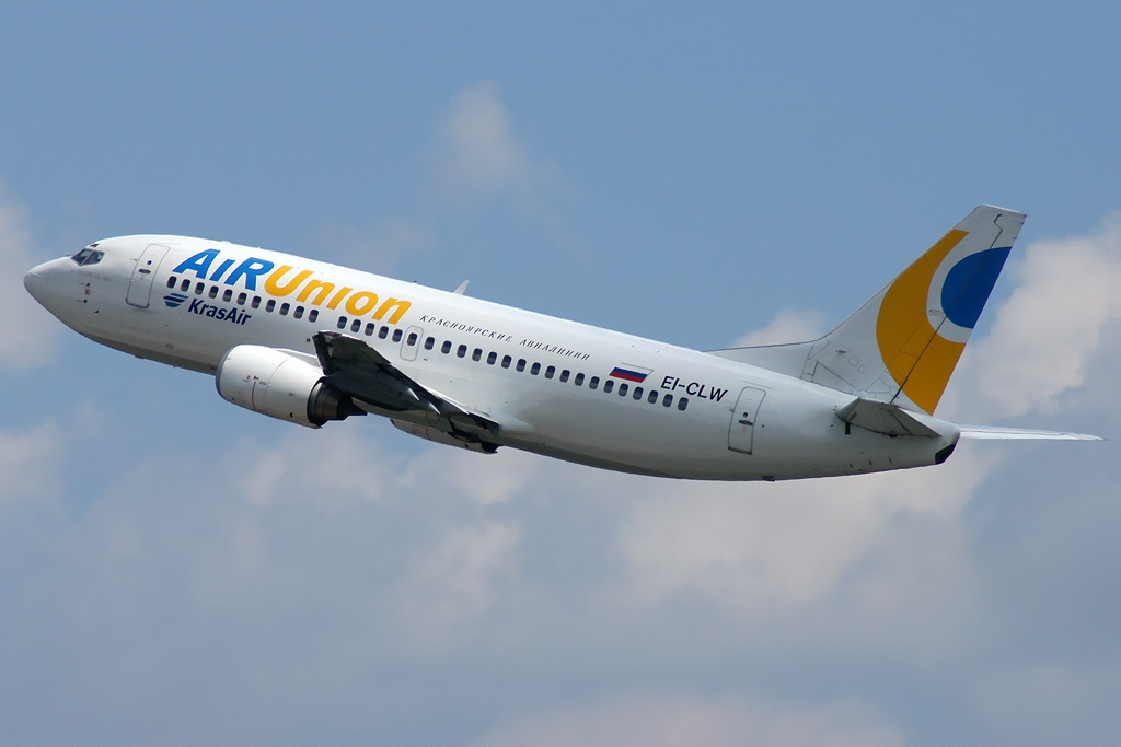 A bit of past